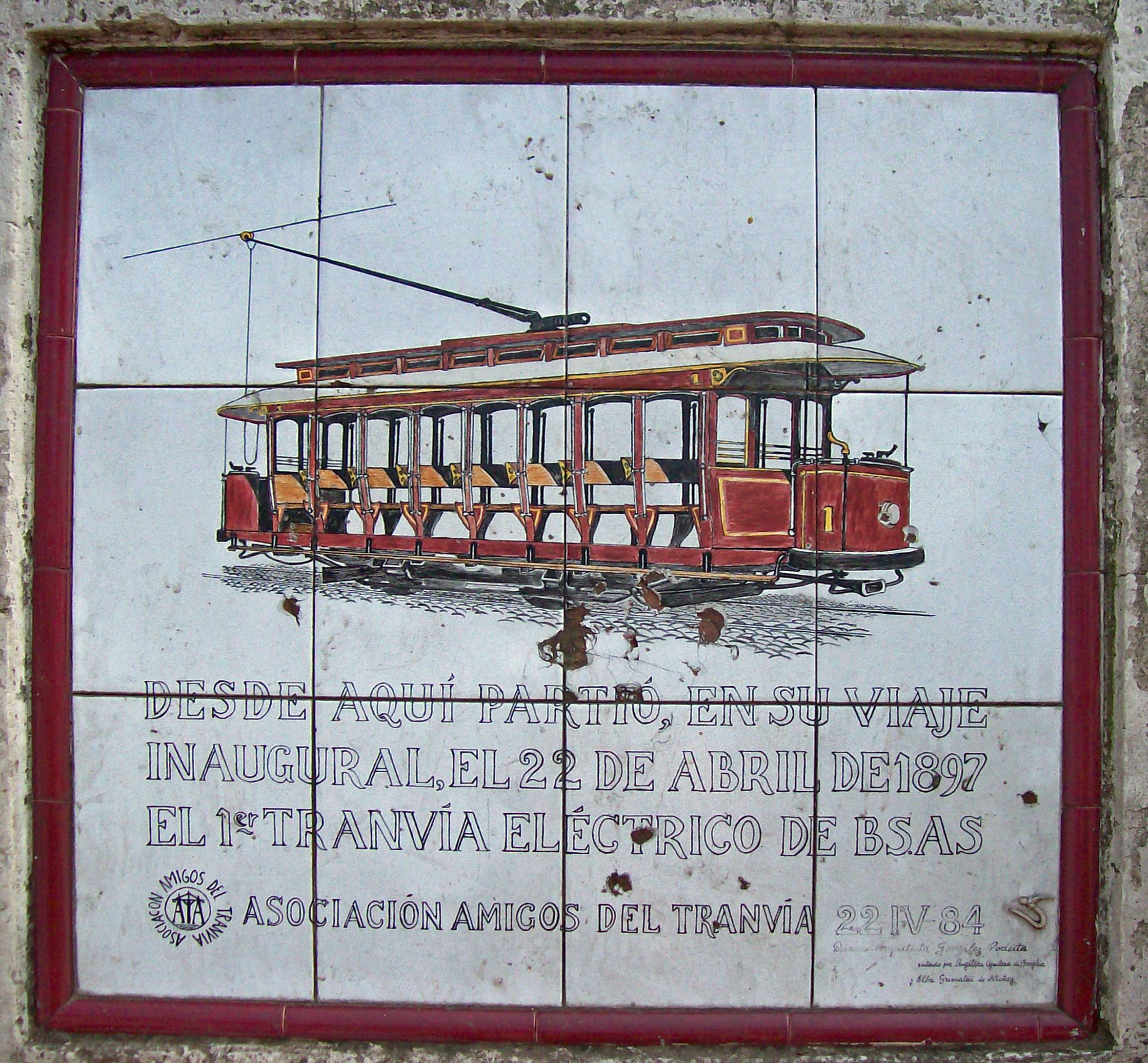 (by Google Translate) Mosaic, in the Plaza Italia, Palermo neighborhood in Buenos Aires, Argentina. Design architect Gonzalez Podesta, painted by Angelica Aguilera Grimaldi Breglia and Nuñez Elba. "Remember the opening of the first electric tram in 1897, which started from that point. It is located on the edge of the square, at the intersection of the curve of Santa Fe Avenue with street imaginary extension of the George L. Borges." It was settled in 1984 by the Friends of the Tram.